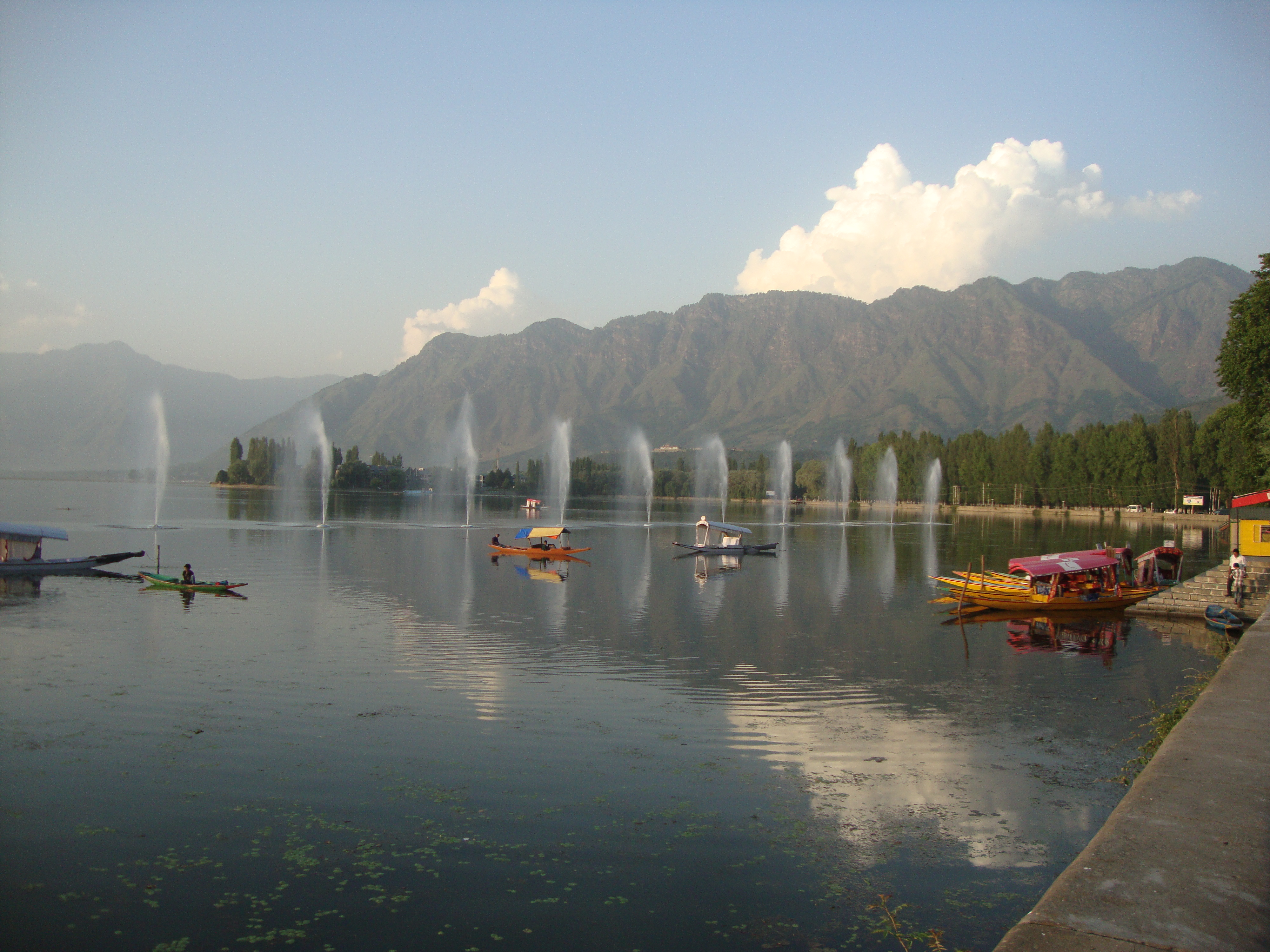 Photo of Dal Lake, Srinagar. Multiple 'Shikaras' (boats) and fountains throwing up jets of water can be seen.